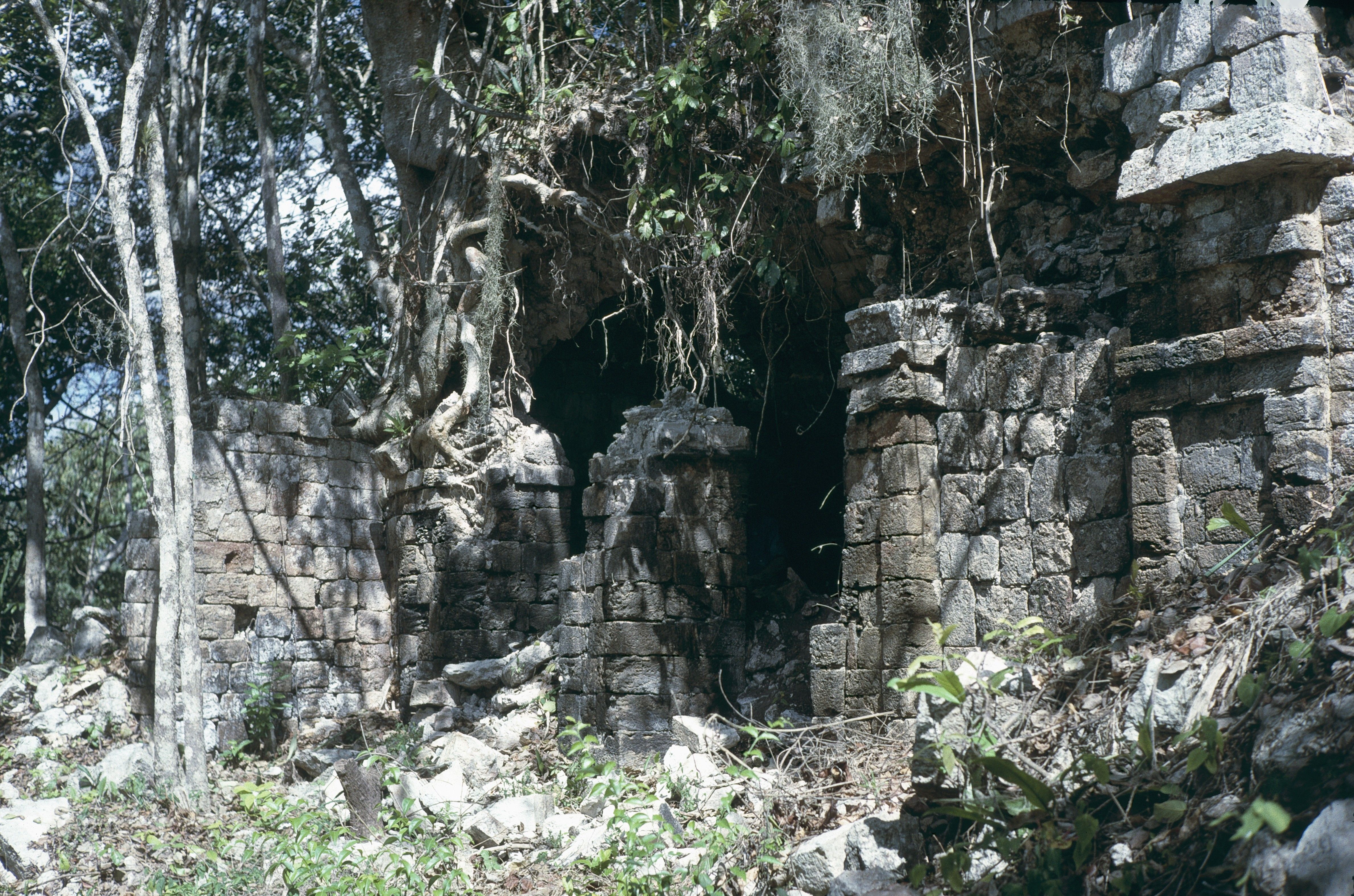 Macoba, Campeche, Mexico: Structure 2